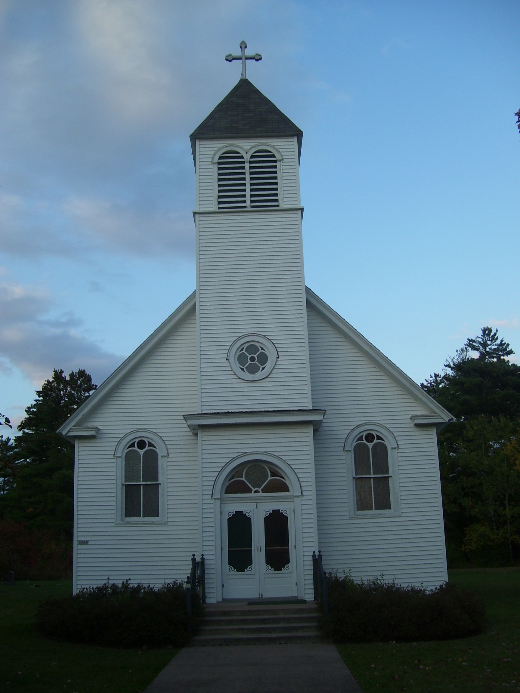 St. Joseph Catholic Church on Madeline Island, founded by Bishop Frederick Baraga in 1838.